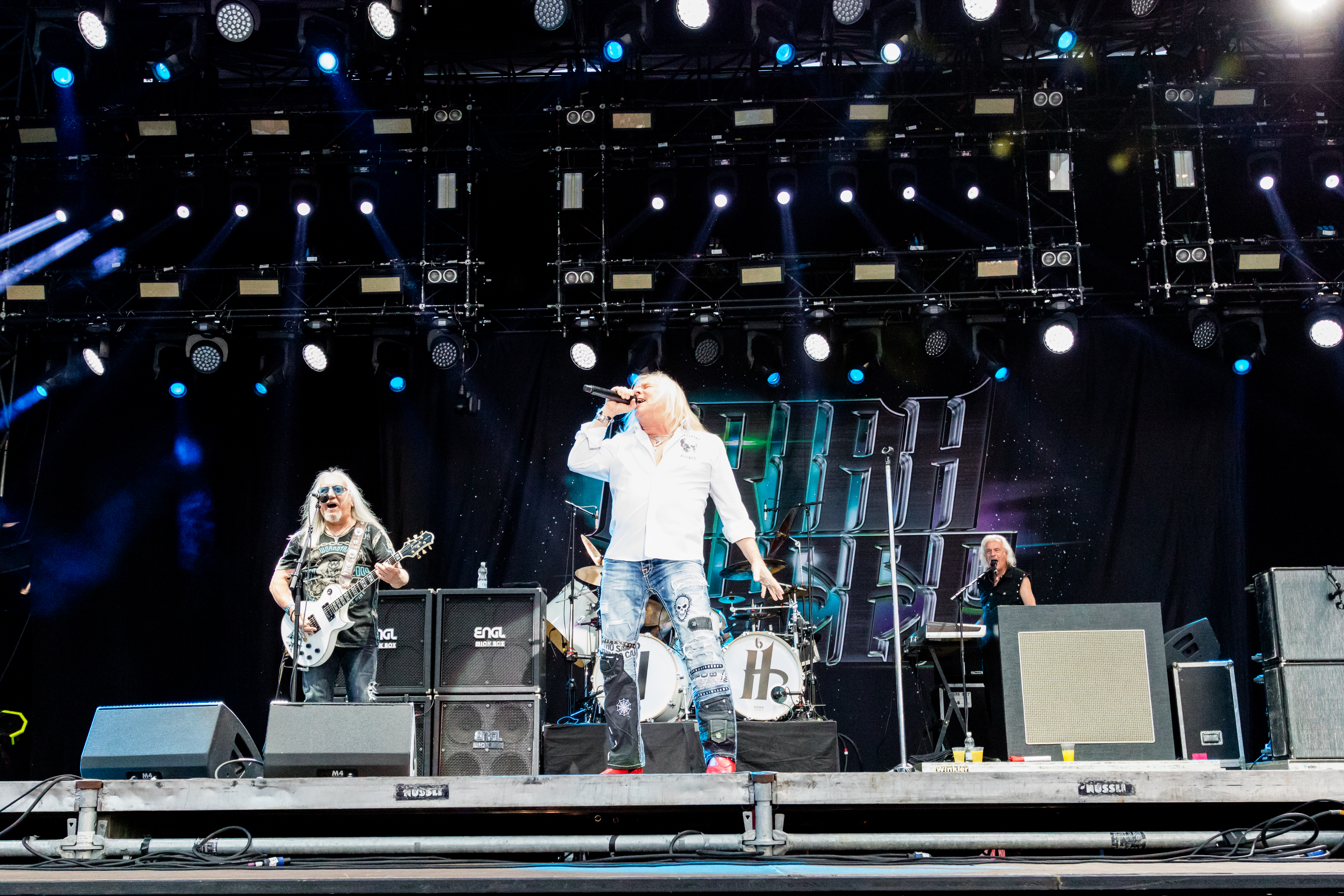 Uriah Heep @ Rock the Ring 2018